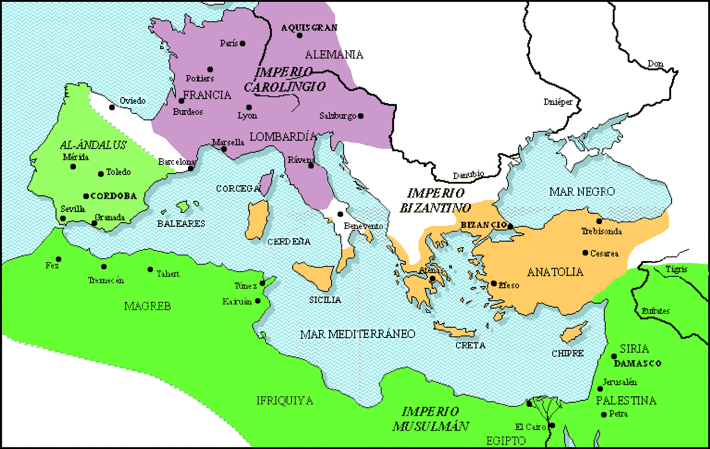 Map showing major political divisions around the Mediterranean c. 800. Based on work by User:Locutus Borg ([1]). Borders adjusted according to Westermann Grosser Atlas zur Weltgeschichte (Braunschweig 1976), pp. 54-55 and 57.